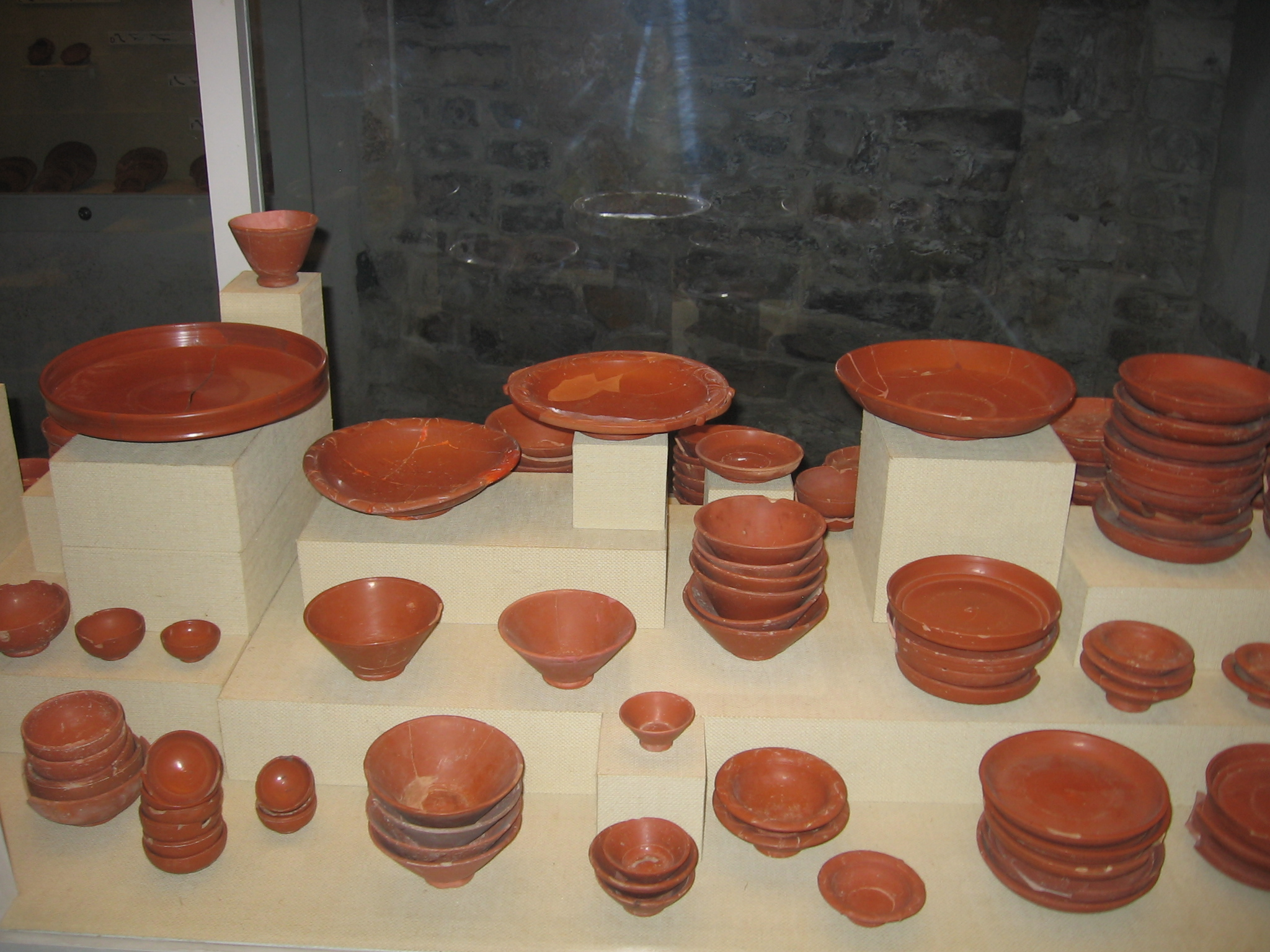 Examples of Early Roman terra sigillata produced at Graufresenque near Millau, France.